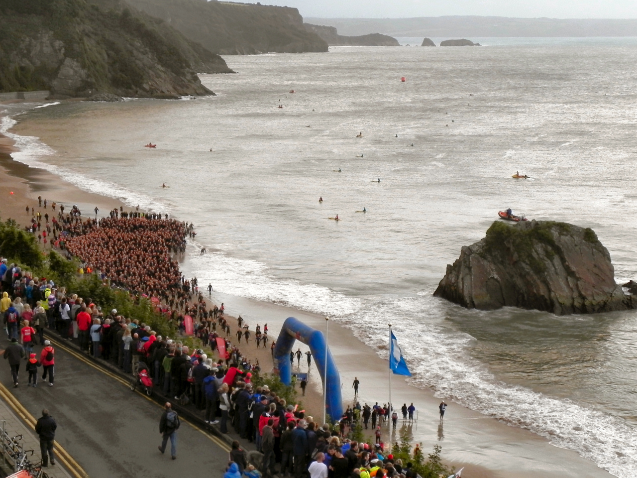 7am on Sunday morning and approximately 1300 athletes, representing more than 30 countries, line up on Tenby's North Beach ready to tackle the first leg of the Ironman Wales triathlon competition.